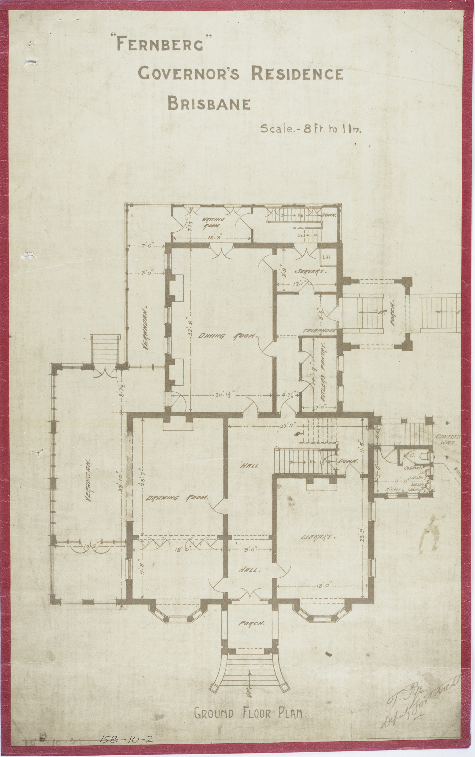 Fernberg, Governor's Residence, Brisbane, Ground Plan, c 1884